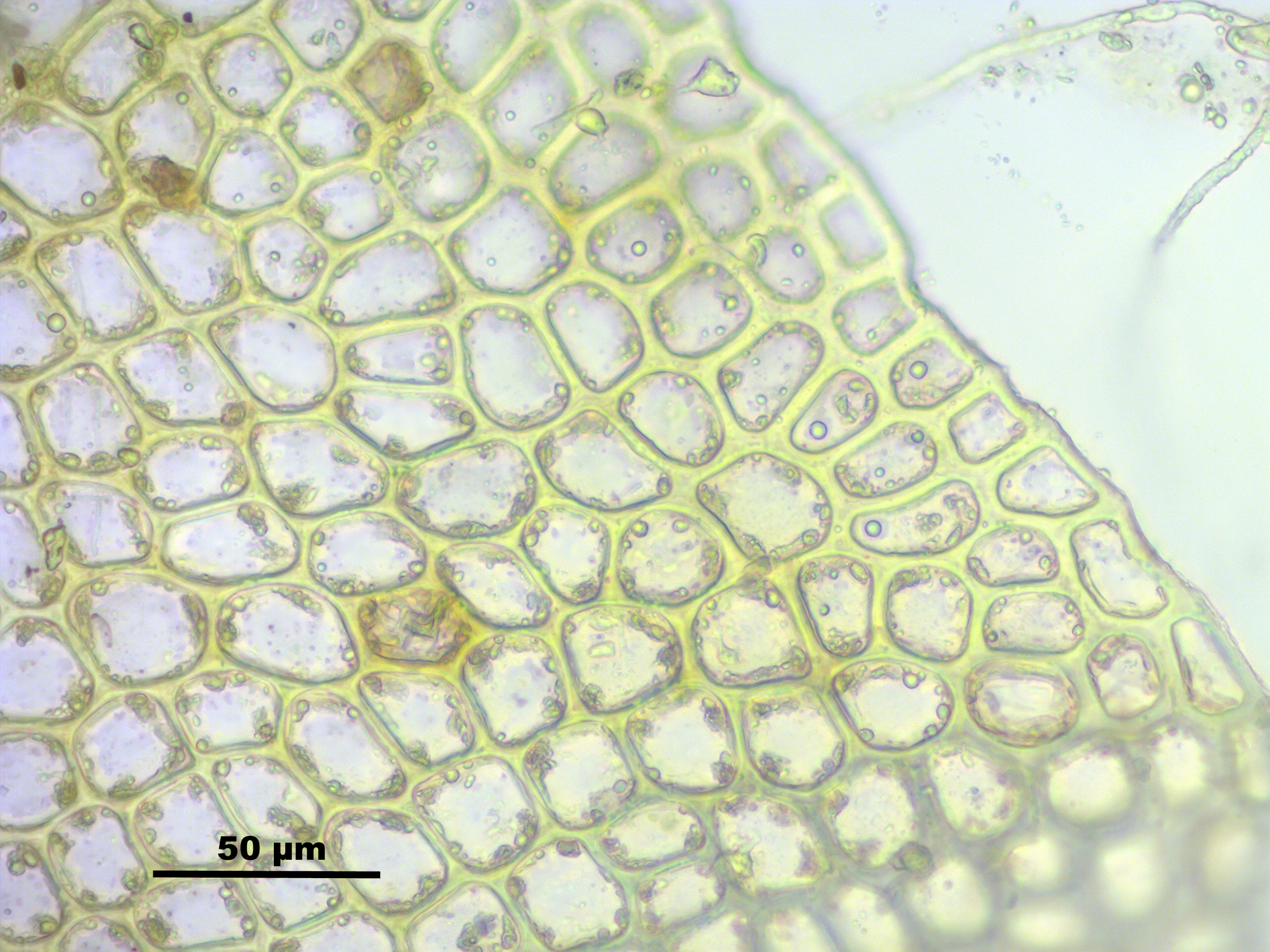 Scapania curta